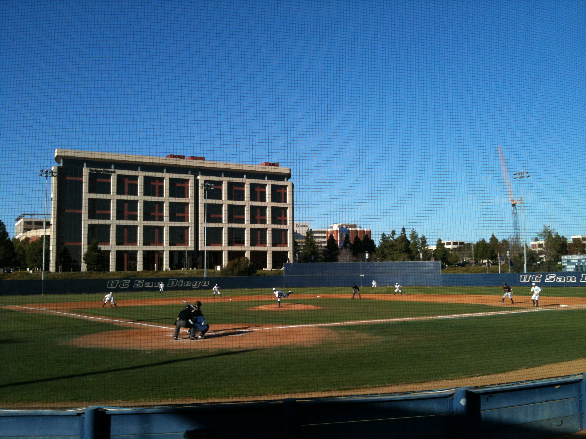 Triton Ballpark